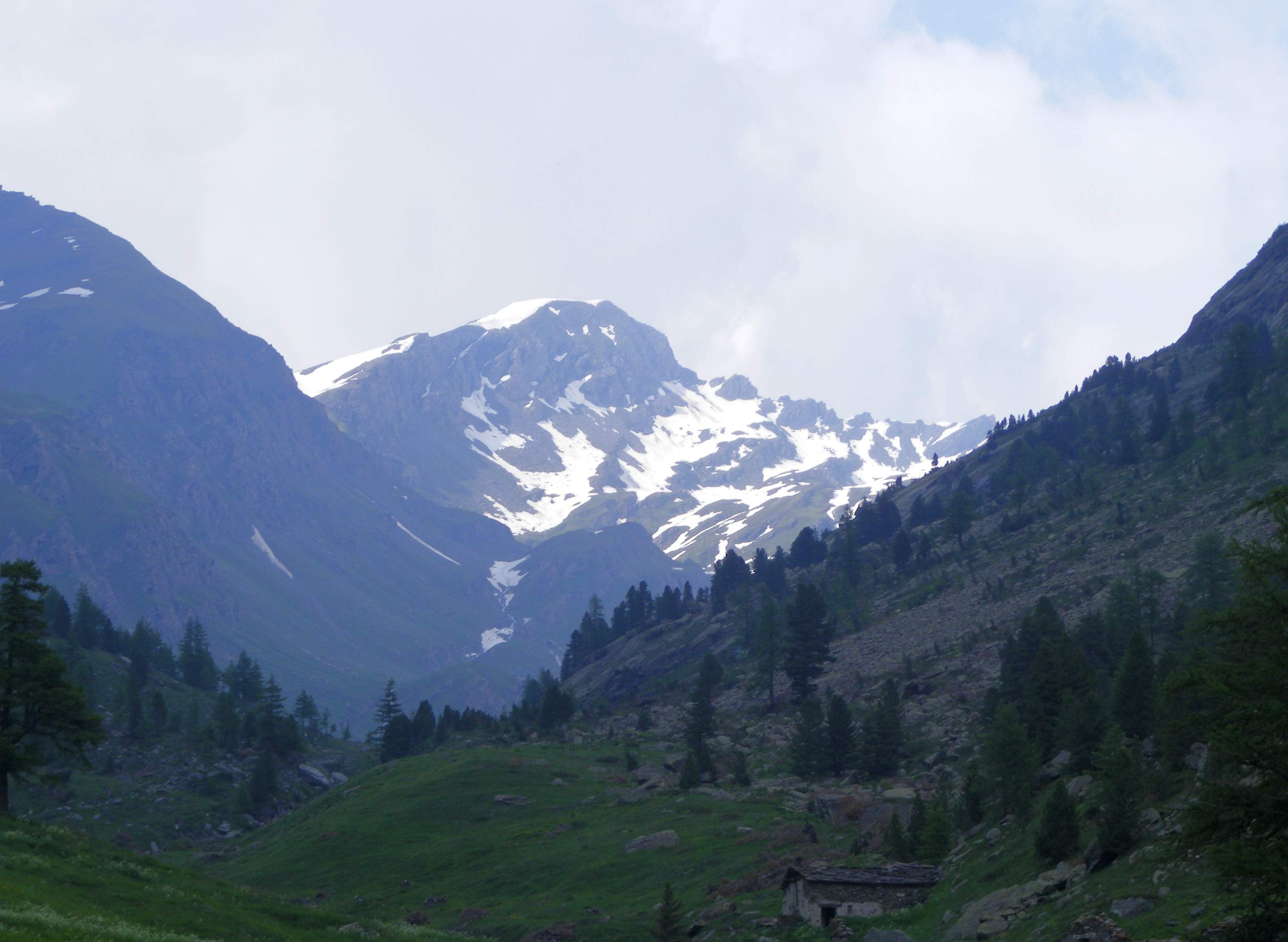 Mount Losetta (Cottian Alps, Italy/France): south-eastern face from Vallanta Valley